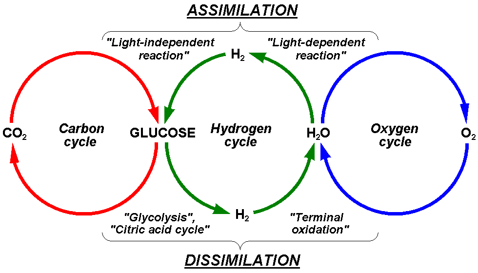 Interconnection between carbon, hydrogen and oxygen cycle in metabolism of photosynthesizing plants